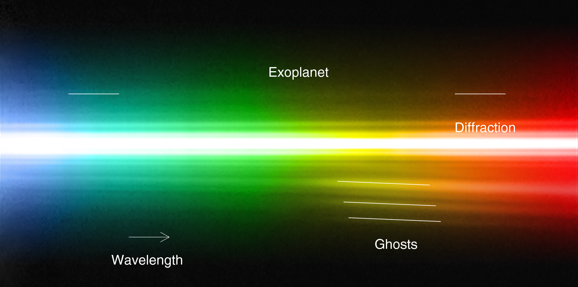 By studying a triple planetary system that resembles a scaled-up version of our own Sun’s family of planets, astronomers have been able to obtain the first direct spectrum of a planet around a star, thus bringing new insights into its formation and composition. The spectrum is that of a giant exoplanet, orbiting around the bright and very young star HR 8799, about 130 light-years away. This spectrum of the star and the planet was obtained with the NACO adaptive optics instrument on ESO’s Very Large Telescope. As the host star is several thousand times brighter than the planet, this is a remarkable achievement, at the border of what is technically possible. According to the scientists it is like trying to see what a candle is made of, by observing it from a distance of two kilometres when it’s next to a blindingly bright 300 Watt lamp. Despite the power of the VLT’s extraordinary adaptive optics system, the spectrum of the planet appears very faint, but still contains enough information for the astronomers to characterise the object. In the spectrum several artefacts from the instrument are seen, such as internal reflections, or “ghosts”, and diffraction rings.